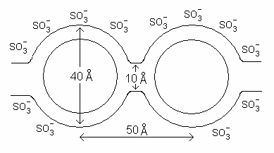 Gierke, T. D.; Munn, G. E.; Wilson, F. C. J. Polym. Sci., Polym. Phys. 19 (1981). 1687.